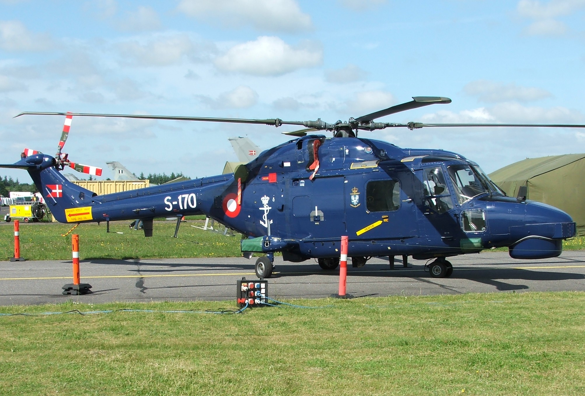 Royal Danish Navy - Westland Lynx. Karup Air Force Base, Denmark. 2005. /PAJ